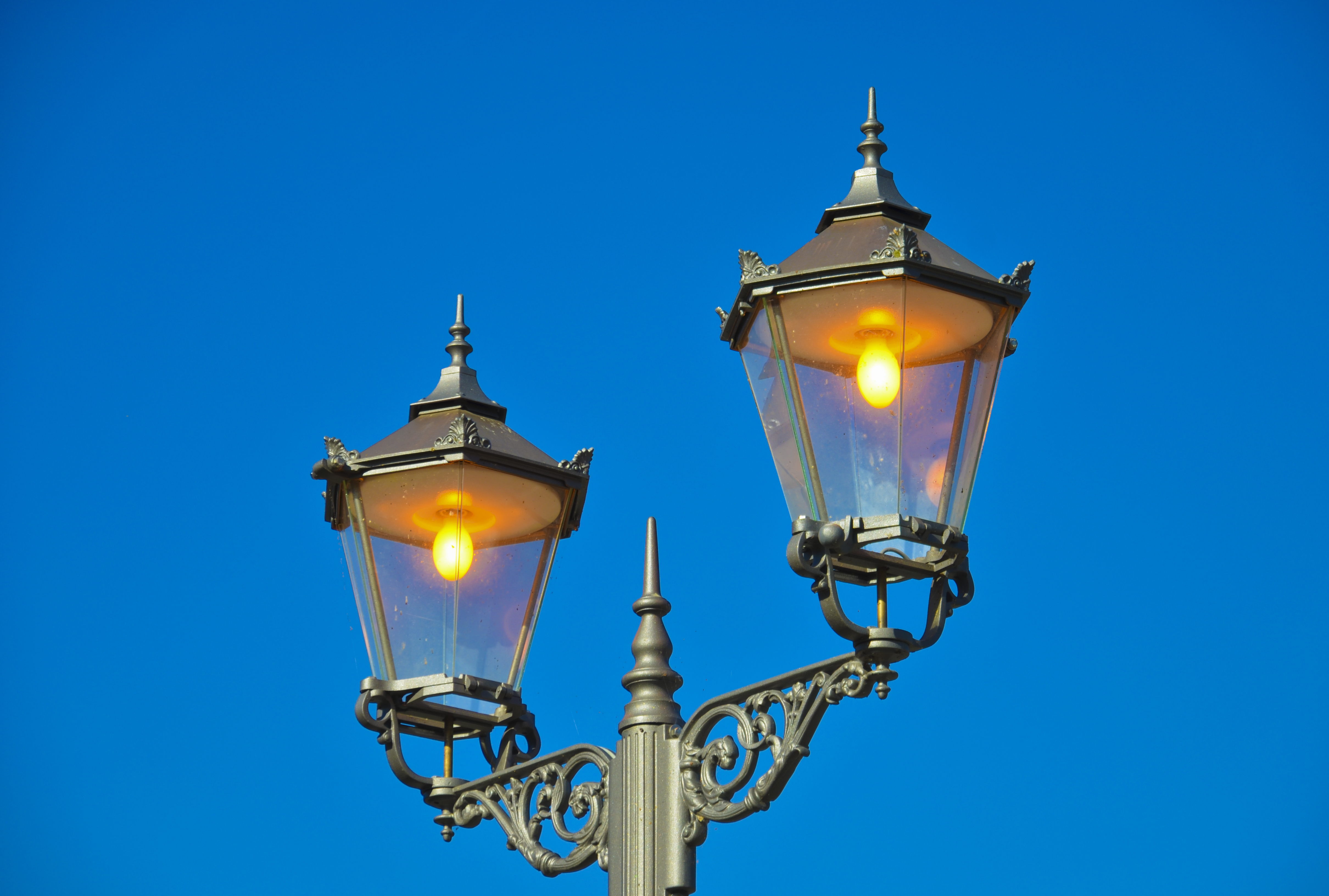 Street light, near hunting lodge Moenchbruch, Hesse, Germany.